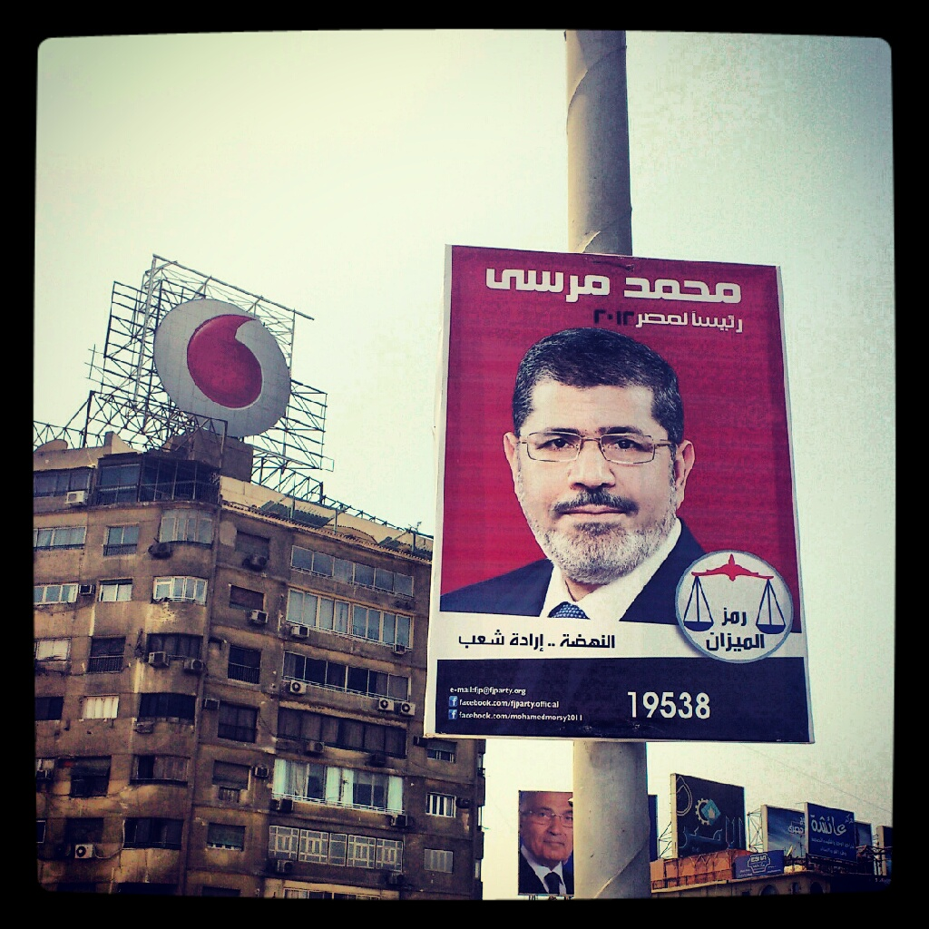 Egypt presidential elections posters. Morsy is the Muslim Brotherhood candidate, and his slogan is, renaissance ... people's will.